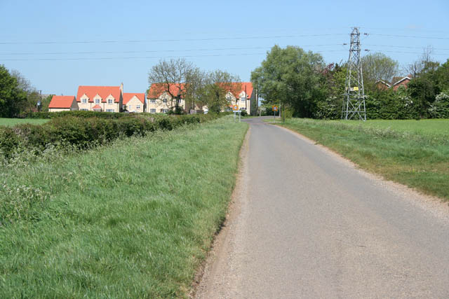 Manthorpe, Lincolnshire. This village is on the edge of the fens. These new houses have a glorious uninterupted view across miles of flat countryside.